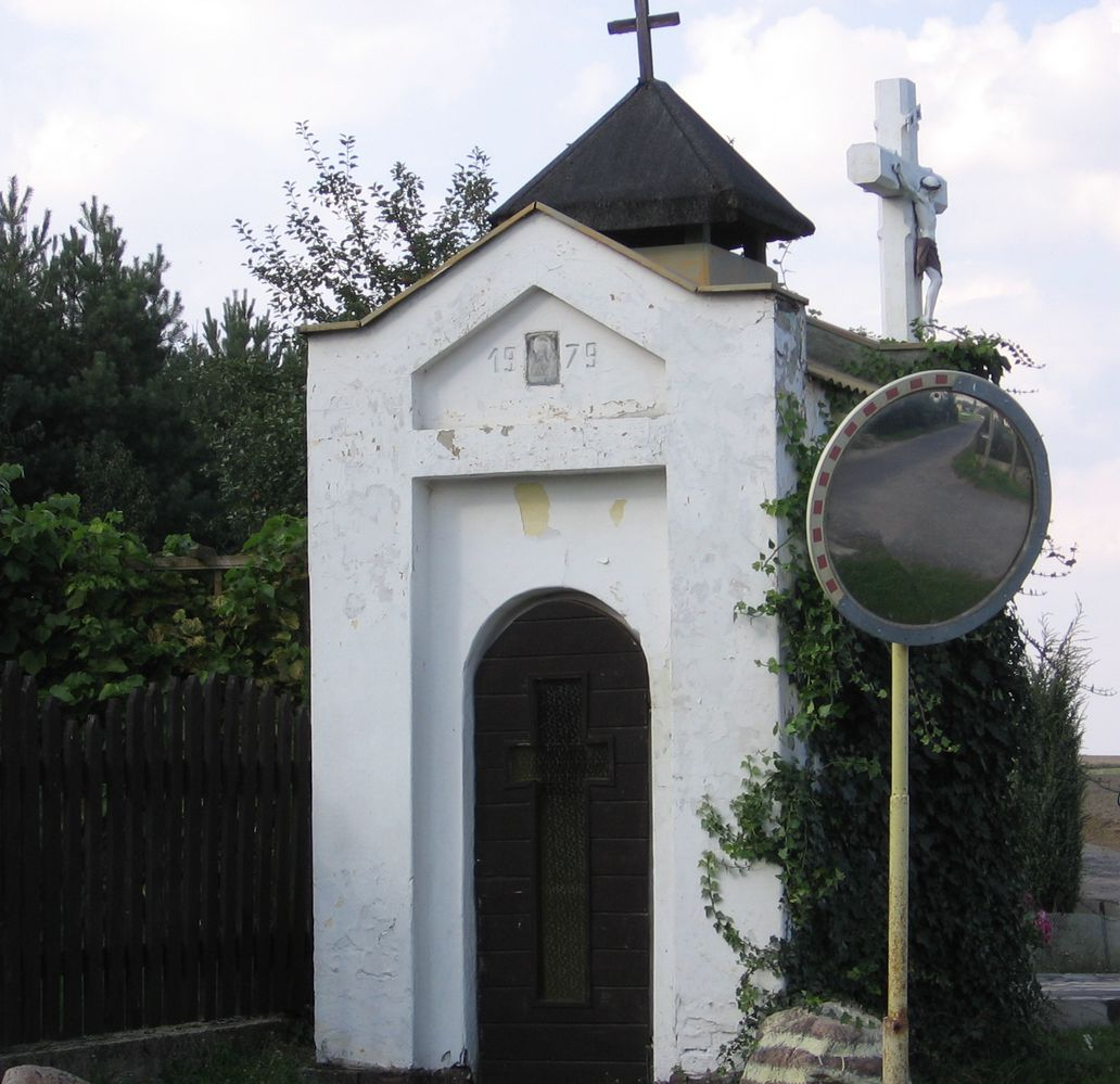 Chapel in Kotulin Maly (Poland)